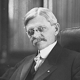 Thomas Marshall in his senate office while serving as vice president of the United States between 1912 and 1920